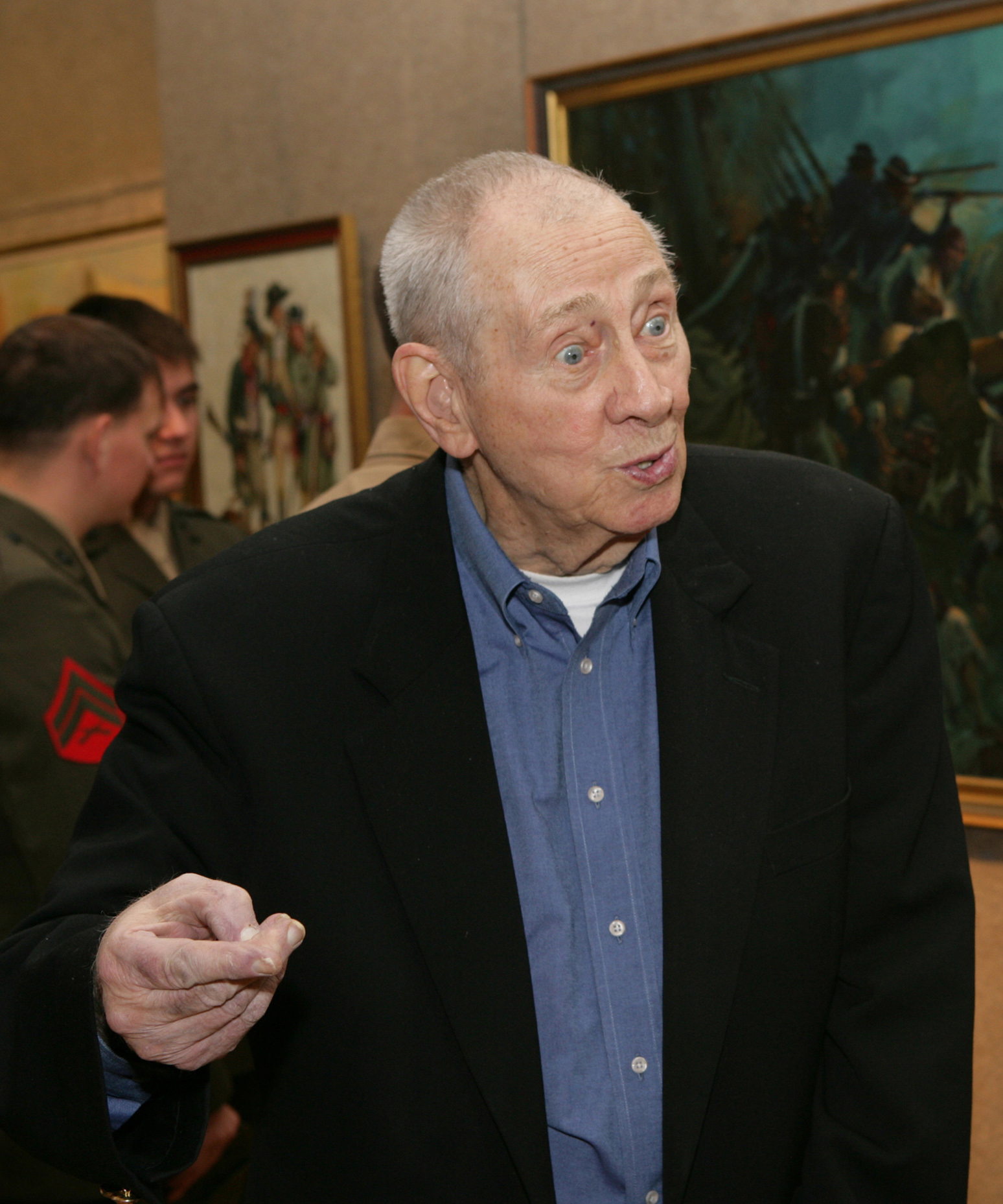 Charles Waterhouse at the Salmagundi Art Club, New York. Note: this is a cropped version of an image with the below caption. Caption: Major Aaron P. Hill, the logistics officer for the 22nd Marine Expeditionary Unit, speaks with Marine artist Colonel Charles Waterhouse during Waterhouse's gallery presentation at Salmagundi Art Club in New York November 9, 2008. The 22nd MEU was in New York to support the reopening of the Intrepid Sea, Air, and Space Museum, and to participate in Veterans Day Events. Forty Marines were invited to attend a special viewing of Waterhouse's artwork. (Official Marine Corps photo by Corporal Theodore W. Ritchie) Unit: 22nd MEU VRIN#: 081109-M-8752R-008.JPG Dateline: NEW YORK ID: 1664